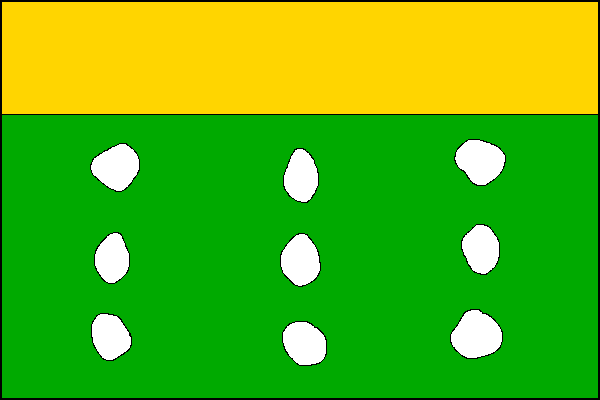 Municipal flag of Kounov , District Rakovník, Czech Republic